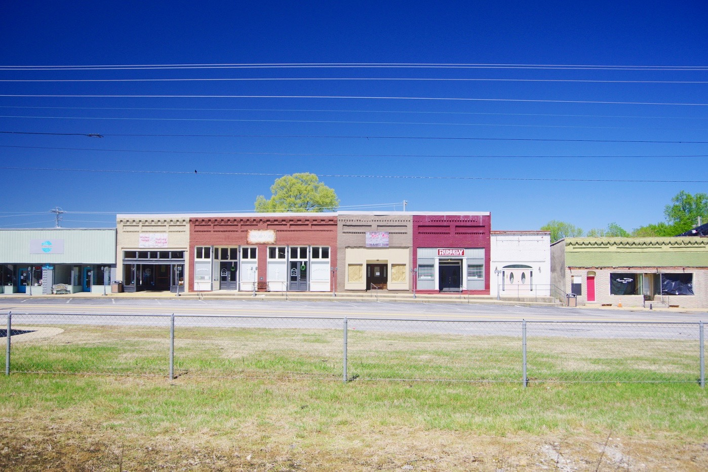 Businesses along Main Street in Medina, Tennessee, United States.